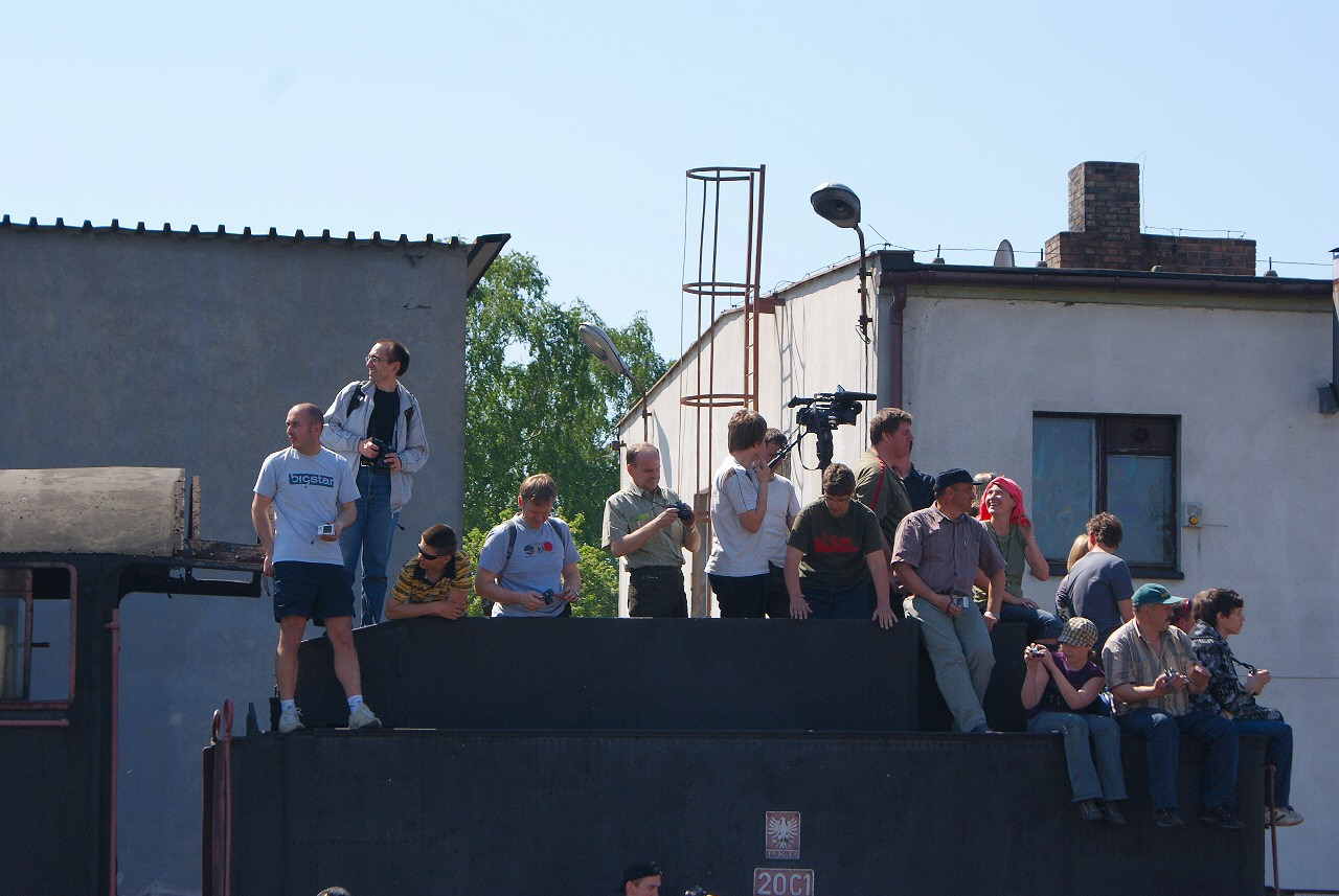 Photographers at work, Wolsztyn, Poland (2009)